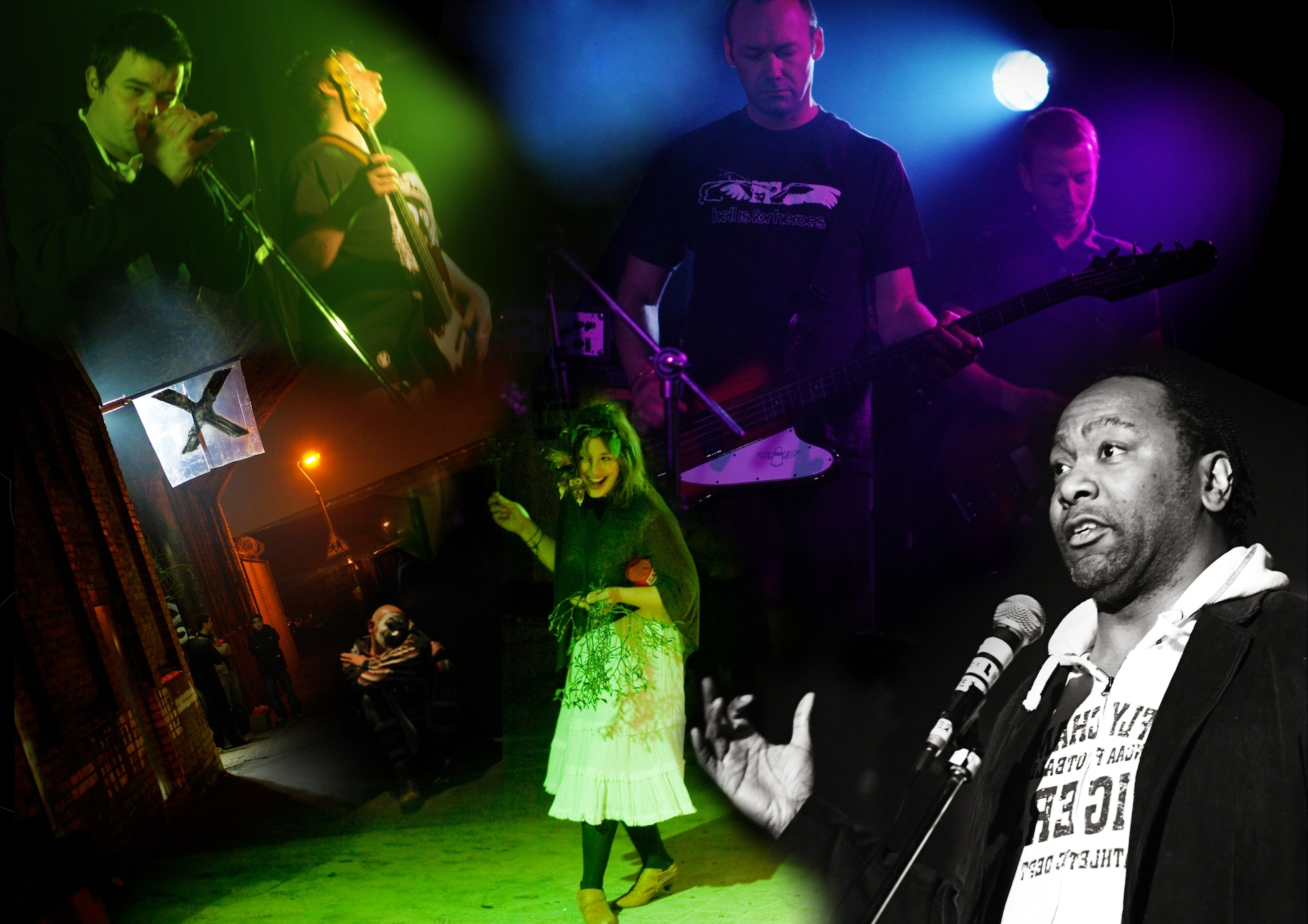 Compostite image compiled by Matt Murtagh from photos he took at the second Project X Presents event at the Rainbow Warehouse.